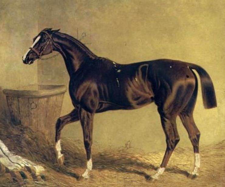 English racehorse Camarine, painted by John Frederick Herring, Sr.(1795–1865). Author dead for 147 years.